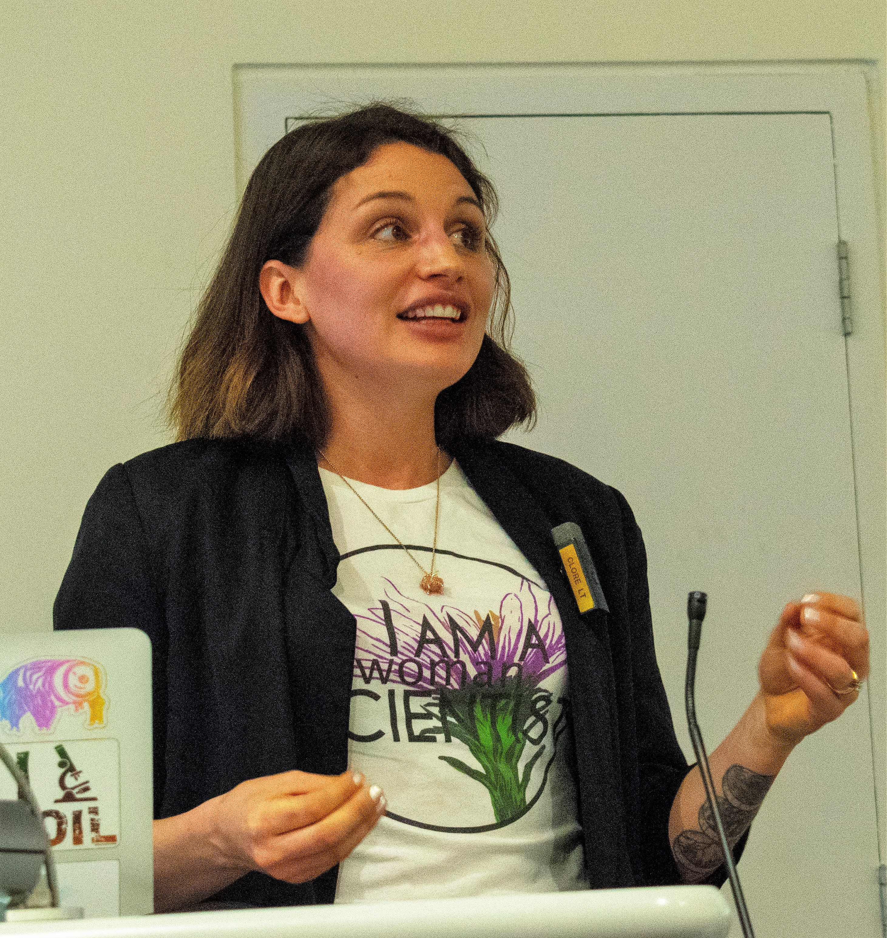 A photograph of Dr Kelly Ramirez, founder of 500 Women Scientists, at lectern giving a seminar a Imperial College London